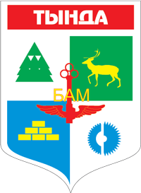 Tynda (Amur oblast), coat of arms (obsolete, since January 26, 2006)